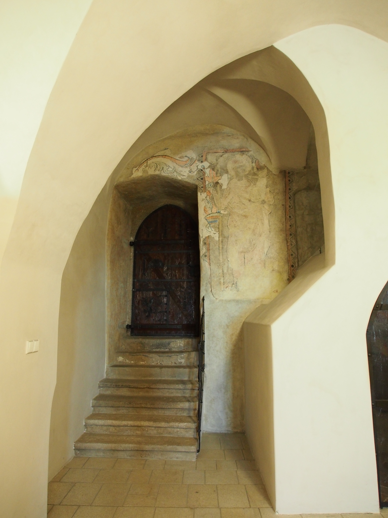 Fresco of Saint Kryštof